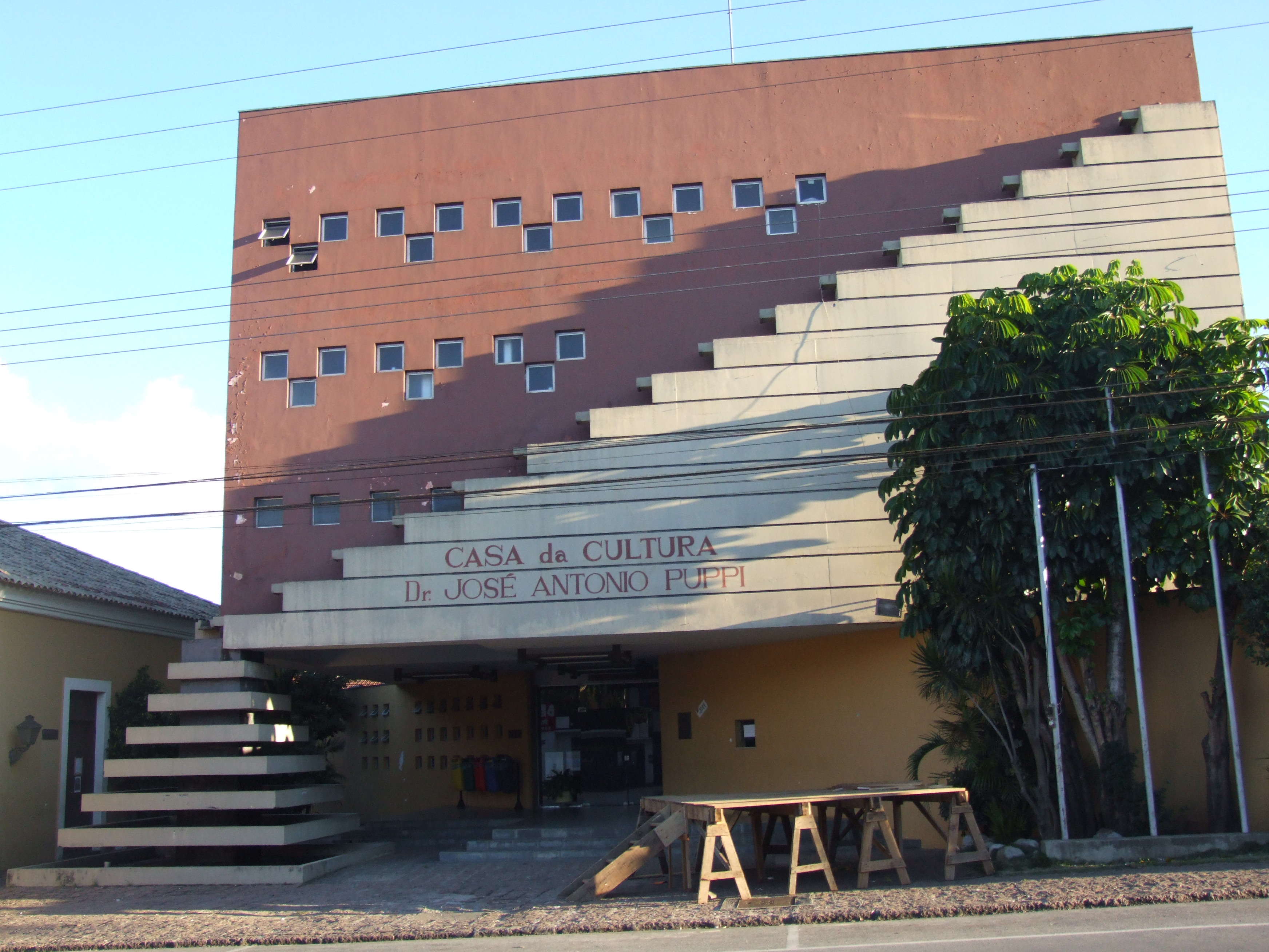 House of Culture of Campo Largo, Paraná, Brazil.